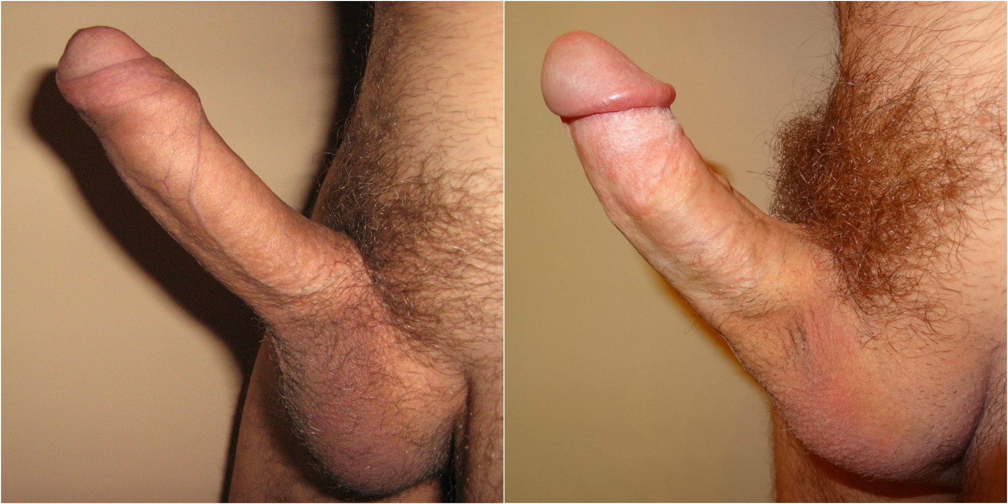 A comparison of uncircumcised (left) and circumcised (right) erections.